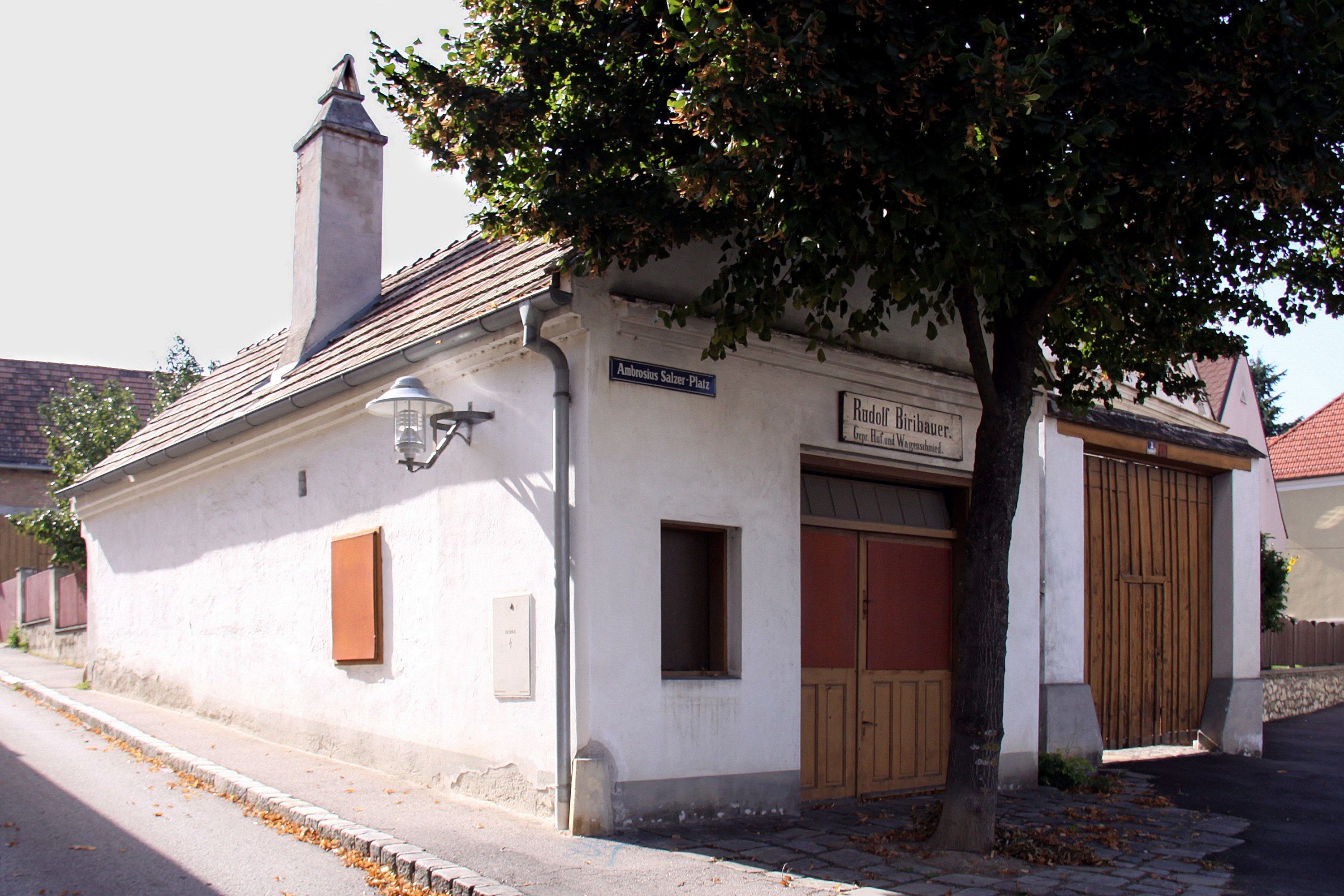 Old forge - Marz Object location47° 43′ 09.03″ N, 16° 24′ 58.38″ E